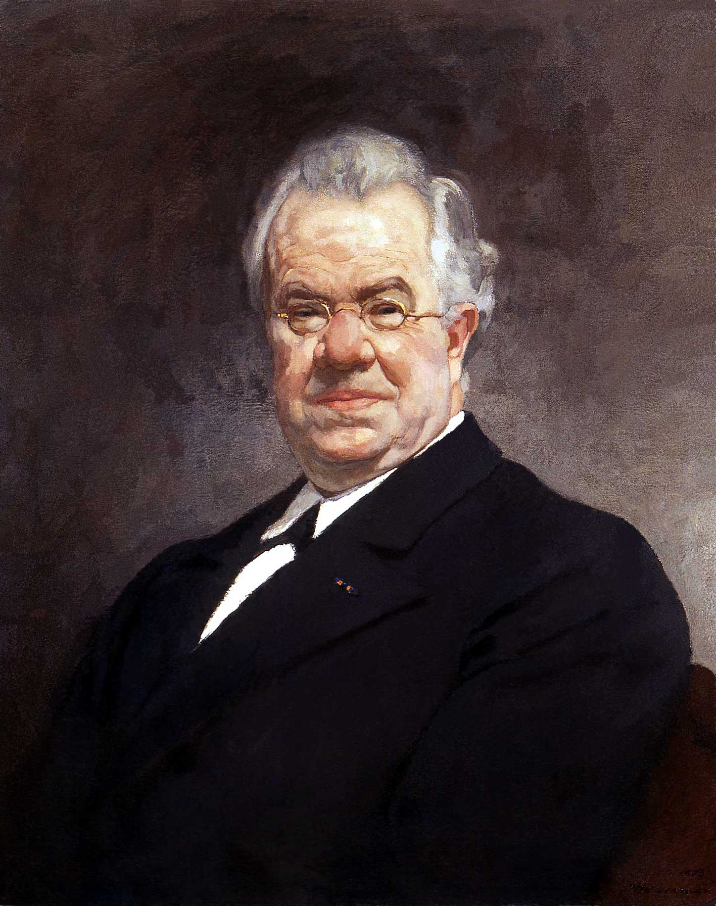 Pieter van Geer (1841-1919), professor mathematics at Leiden University. Portrait (1903) by Hendrik Johannes Haverman, 1857-1928